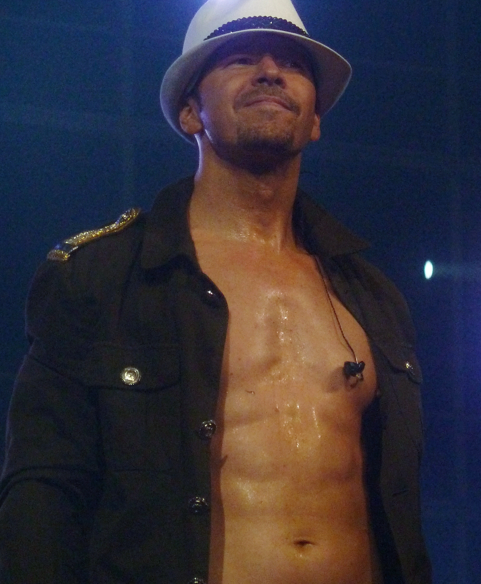 Donnie Wahlberg on stage during a show with NKOTBSB at Wells Fargo Center, Philadelphia/PA